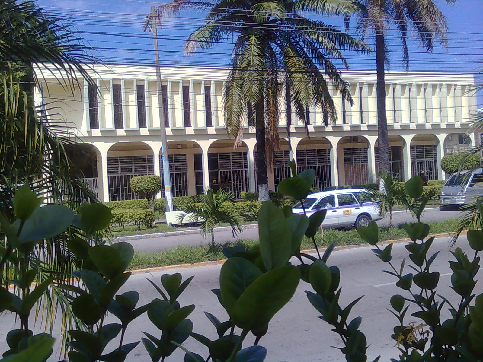 Office of The Central Bank of Honduras in La Ceiba.